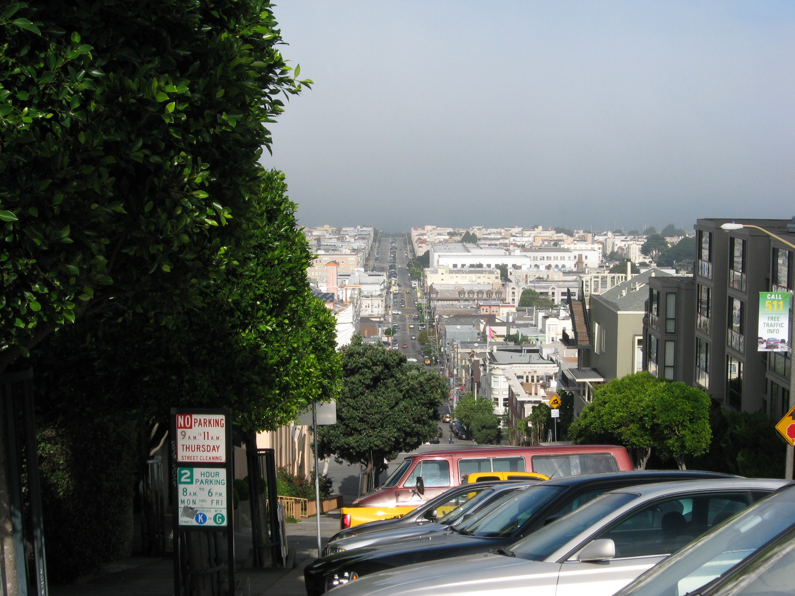 Fillmore Street from Broadway Street. This shot also shows the rest of Fillmore street from Broadway to Marina Blvd.